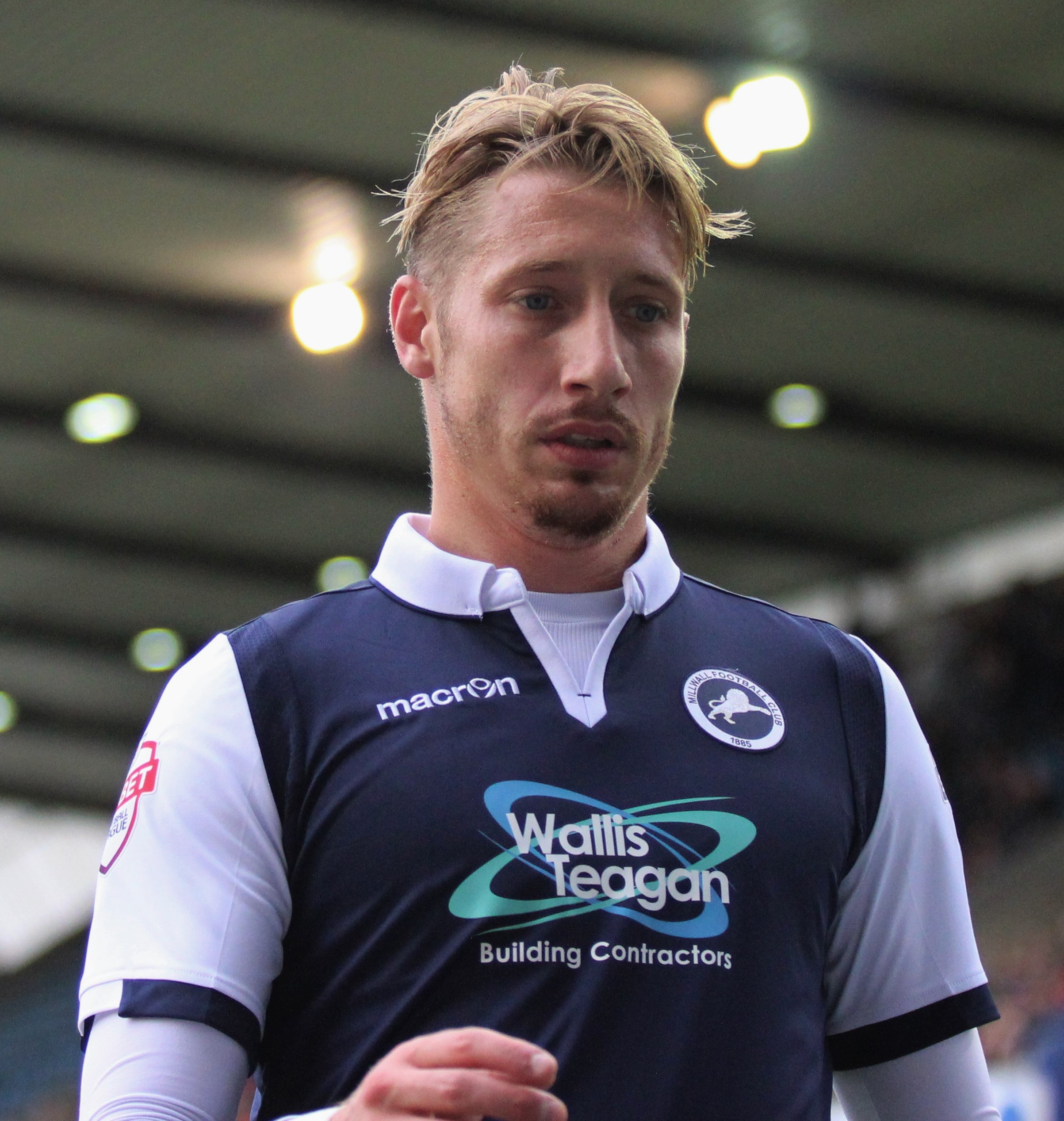 Lee Martin of Millwall during the game against Swindon Town.